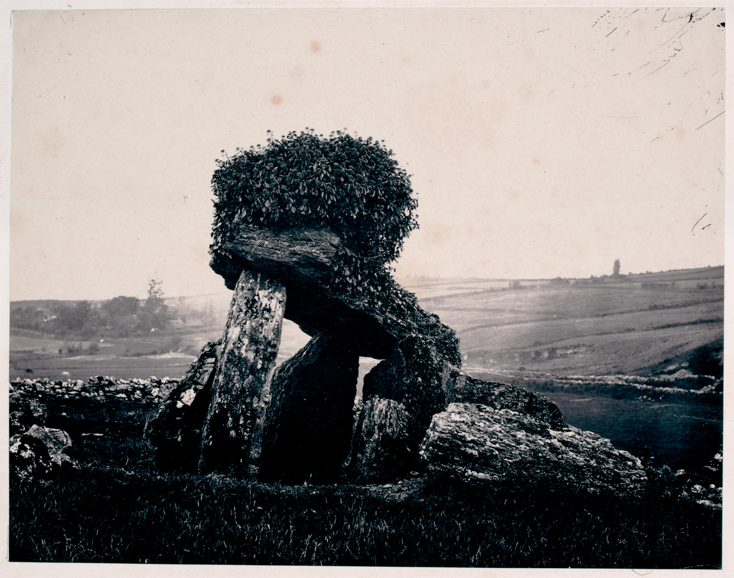 Quite early and rather atmospheric image of the Dolmen at Feenagh in Co. Leitrim. Photographer: Edward King Tenison Date: Circa 1858 NLI Ref.: TEN90